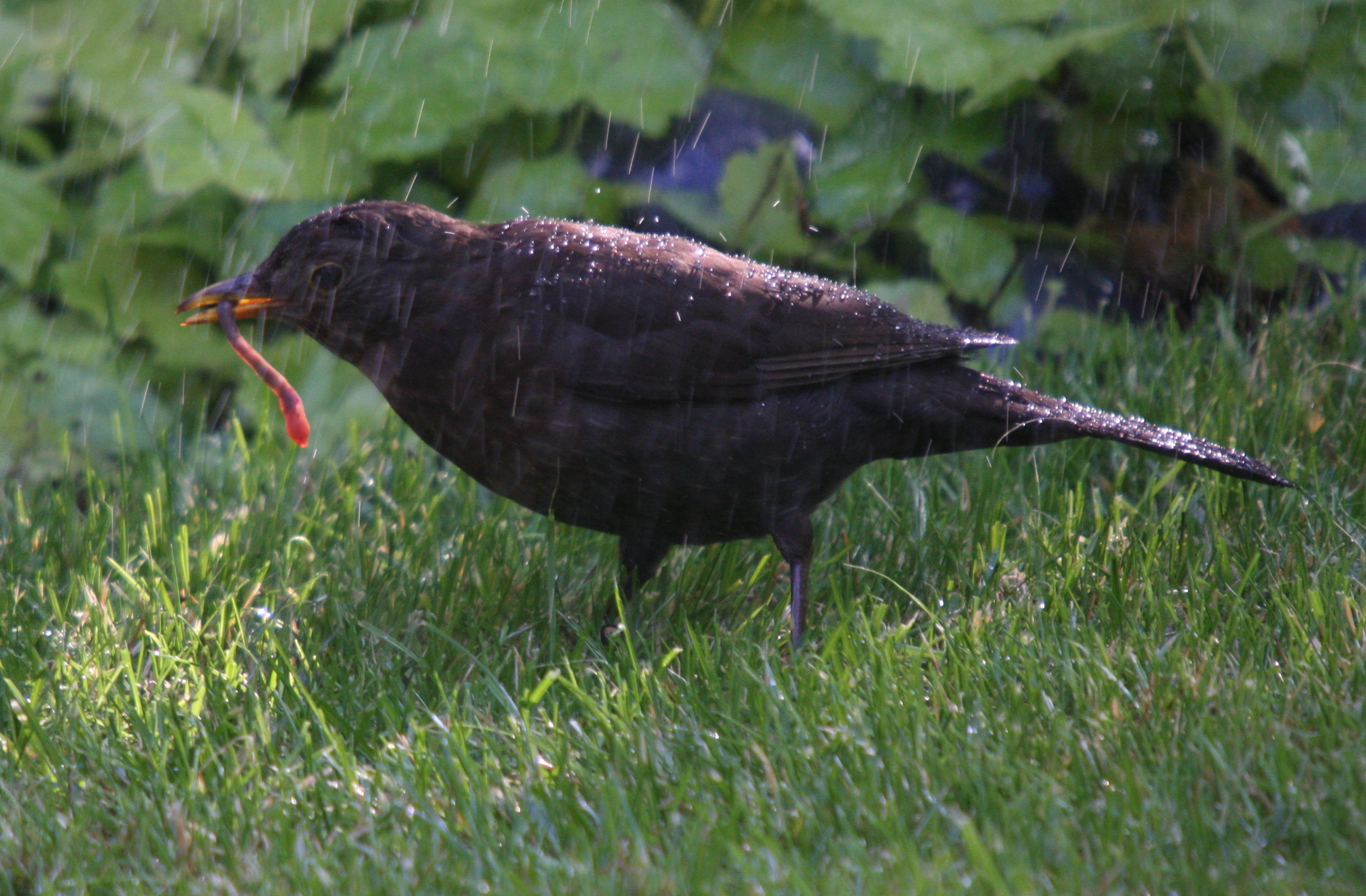 Female blackbird with earthworm in the rain